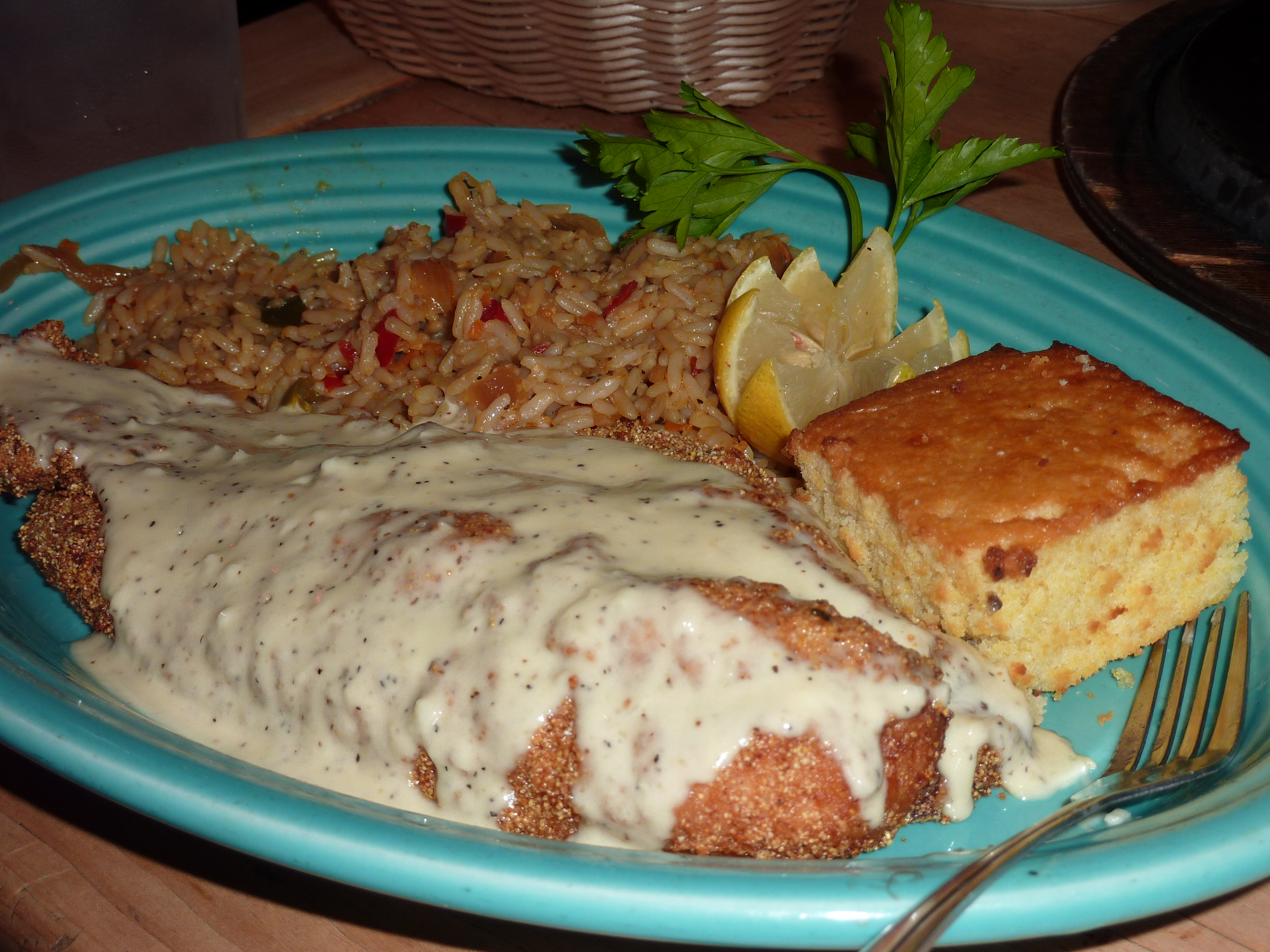 Fried catfish, New Orleans style